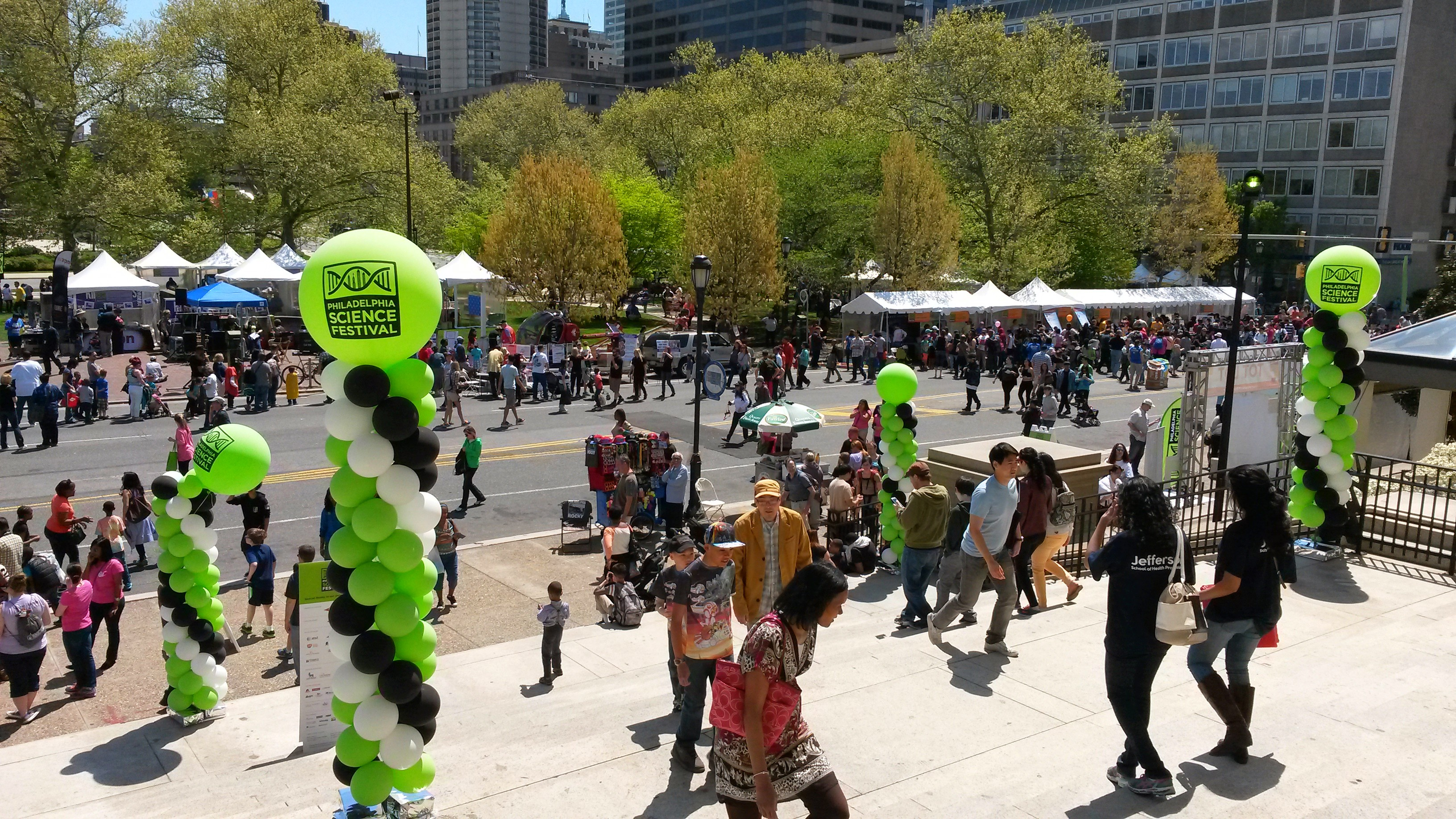 Philadelphia Science Festival Carnival, seen from the steps of the Franklin Institute